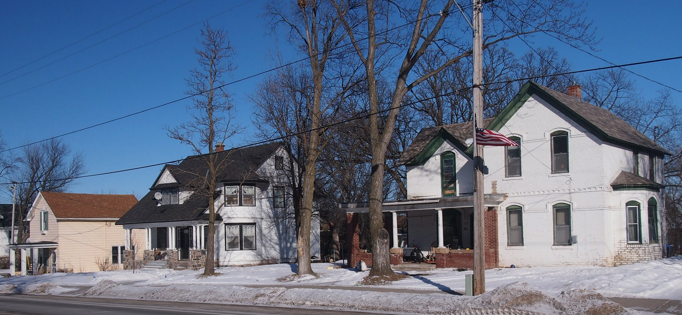 Dr. E.P. Hawkins Clinic, Hospital, & House, 210–230 Buffalo Ave S, Montrose, Minnesota, USA. Now unassuming single family homes, they once served as—from right to left (foreground to background)—Hawkins' c. 1885 house, 1903 hospital, and a c. 1890 house acquired by Hawkins in 1913 for office space and nurse training. Viewed from the southwest.